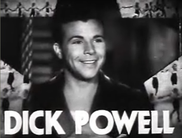 Cropped screenshot of Dick Powell from the trailer for the film Dames.